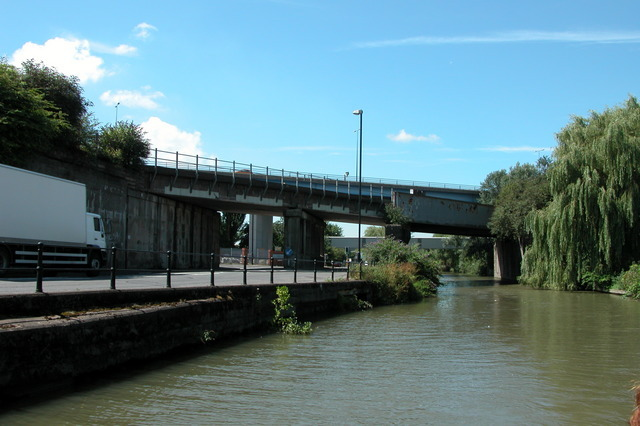 Road and rail bridges crossing the Bristol Harbour feeder canal, entering Bristol. This is the feeder canal leading from the river Avon into Bristol Floating Harbour.